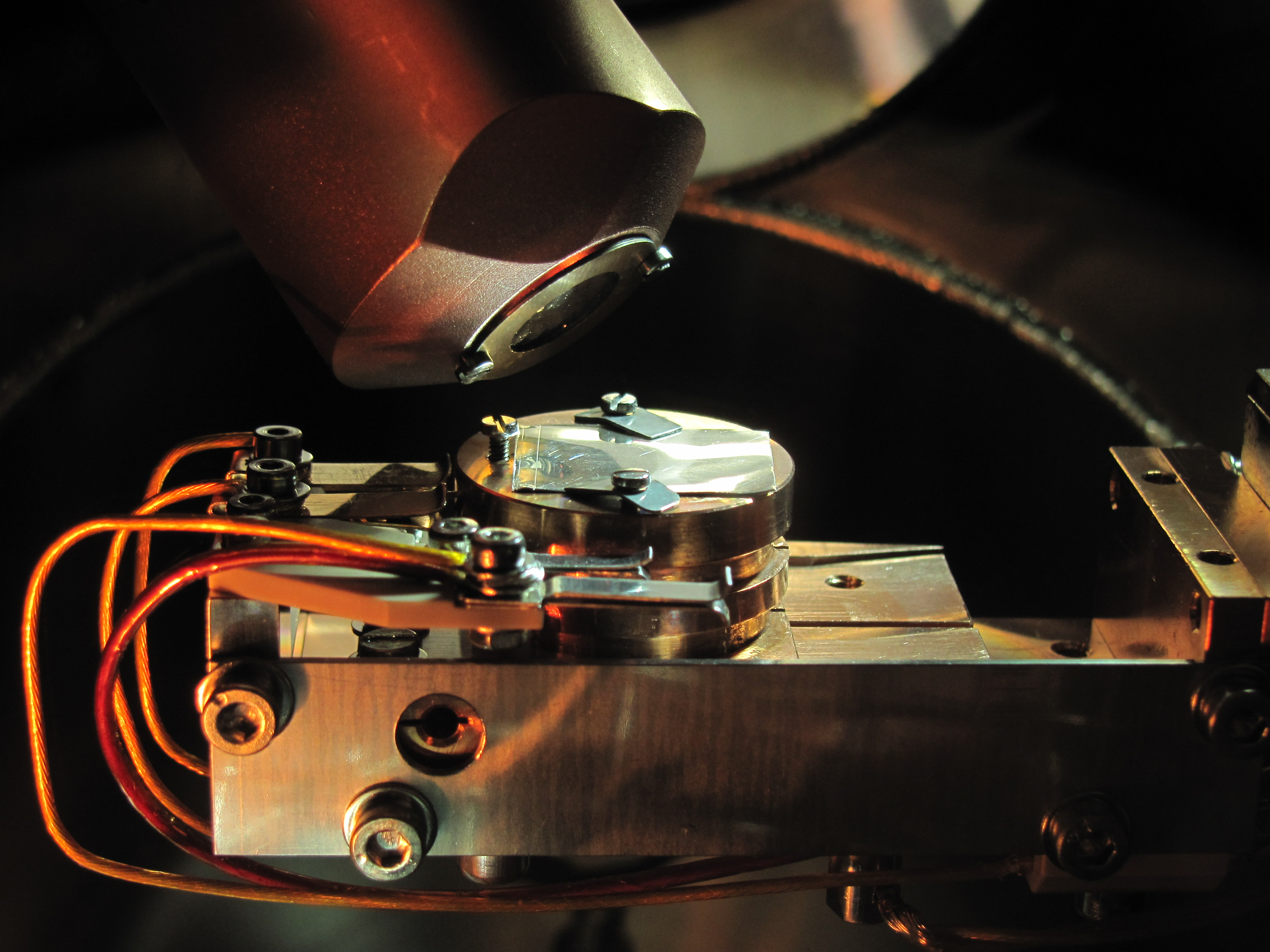 A silver target on a copper mount inside an XPS spectrometer under Ultra high vacuum conditions of about 6·10-8 mbar pressure, being irradiated from a water-cooled Aluminum/Magnesium X-Ray gun. This image was taken through one of the windows of this XPS spectrometer.